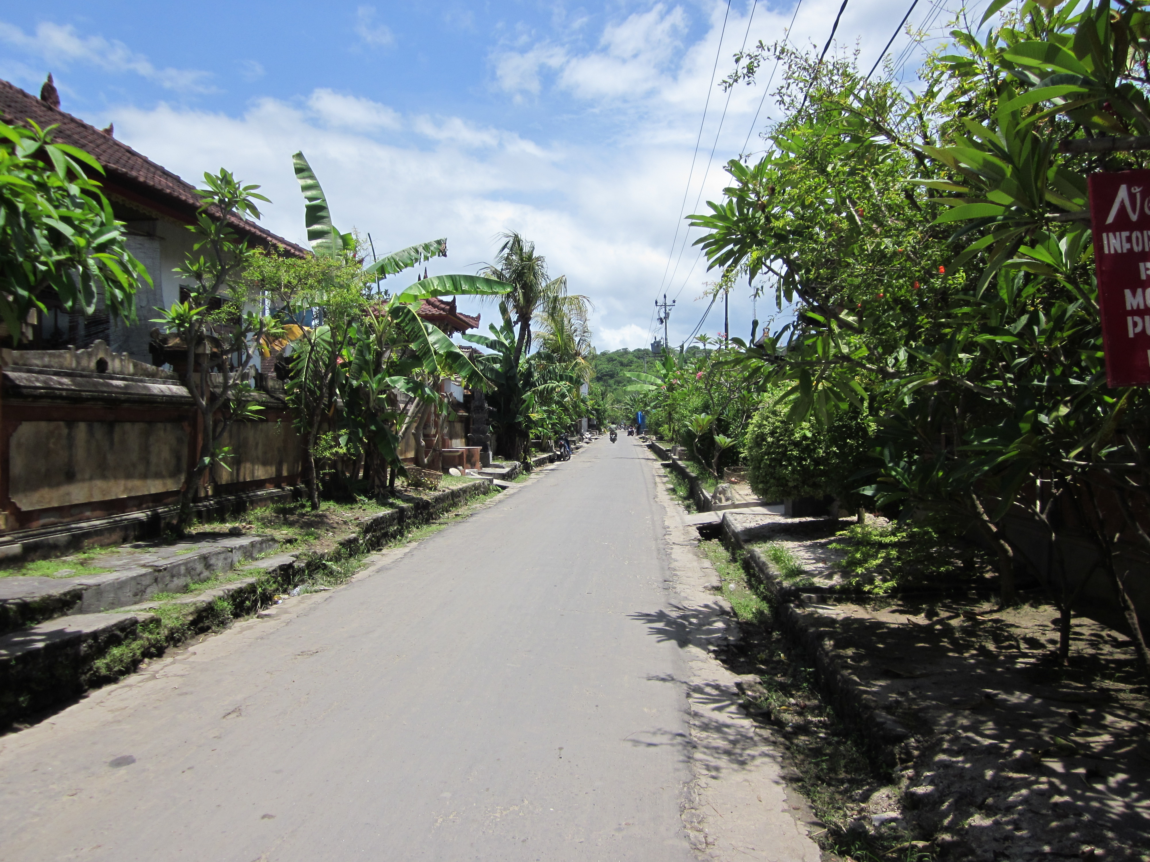 Jungut Batu village in Nusa Lembongan